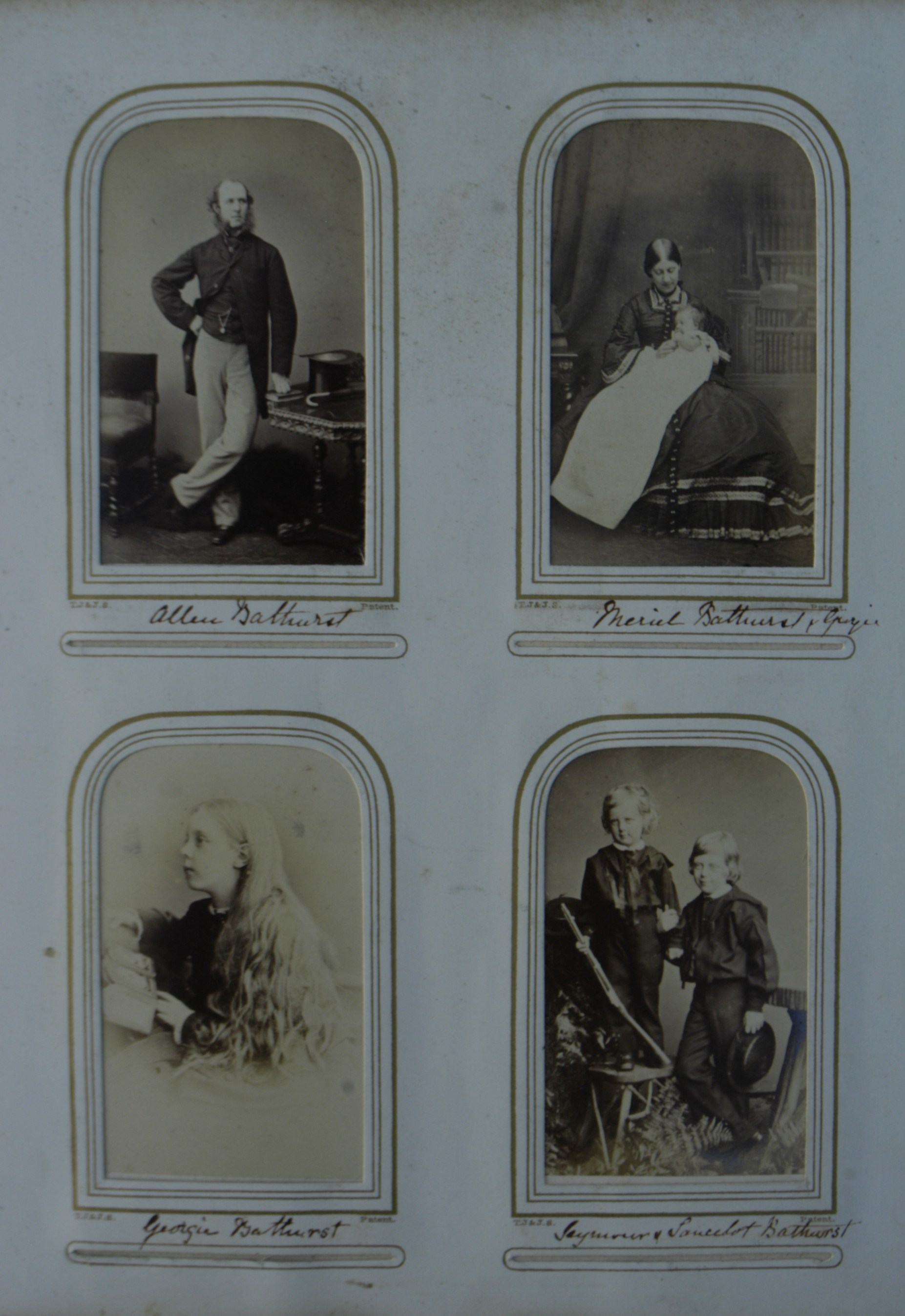 My photo (Rodolph (talk) 01:29, 12 August 2013 (UTC)) of an assembly of photos of hon. Mr & hon. Mrs Allen Bathurst & their children circa 1870 and 1880. Hon. Meriel Leicester Warren, lived from 1839 to 1872.